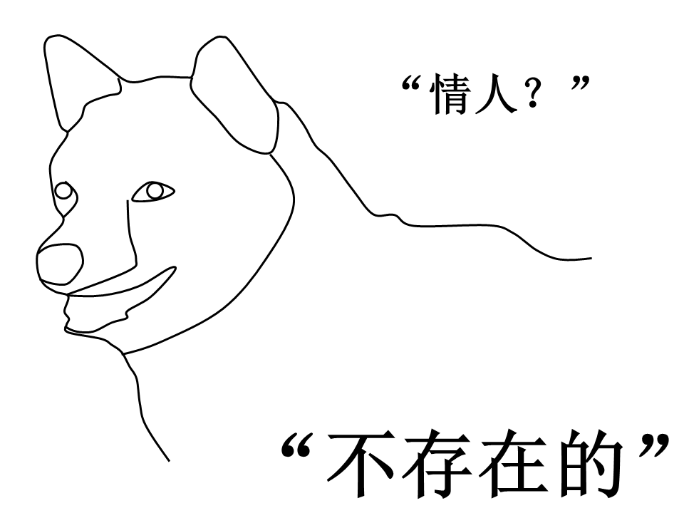 A Chinese biaoqingbao about single persons (Internet meme of China)